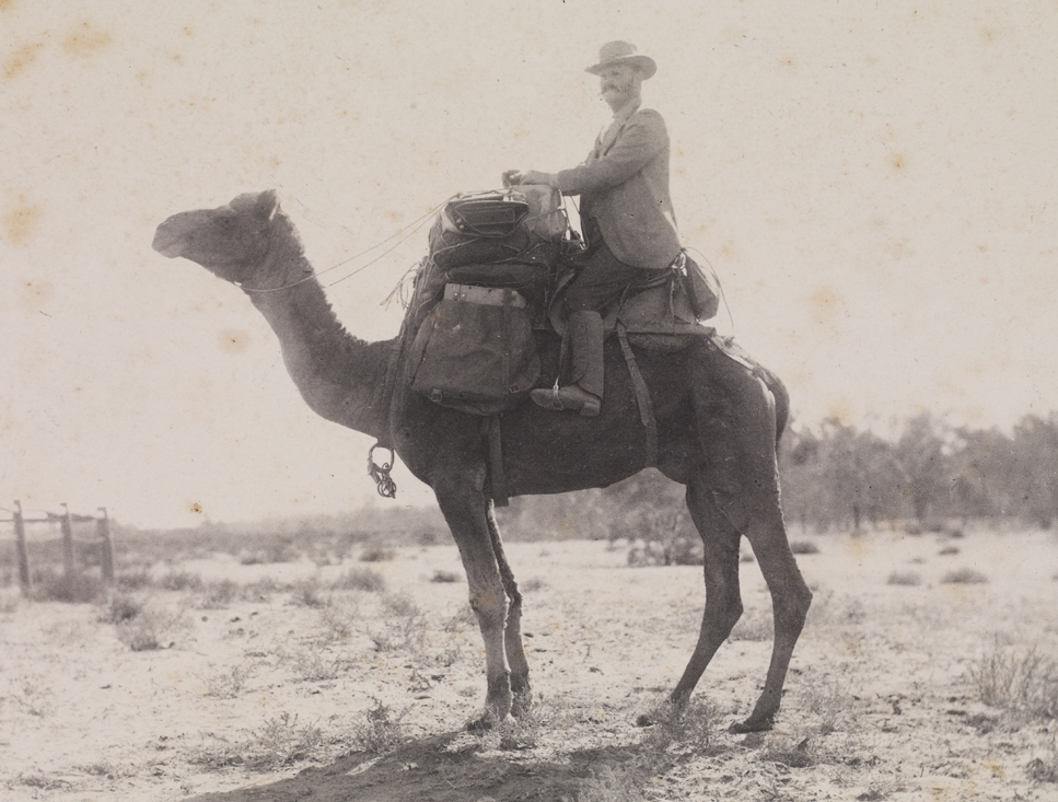 William Austin Horn on camel back